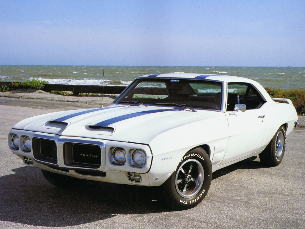 1969_Pontiac_Firebird_Trans_Am_Polar_White_Frt_Qtr